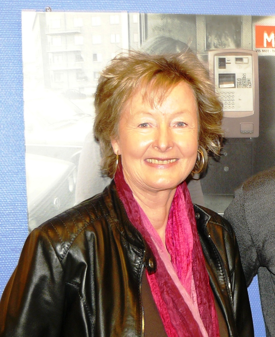 Gro Flaten, principal of Bjerke videregående skole in Oslo, Norway. Also a nonfictional writer.